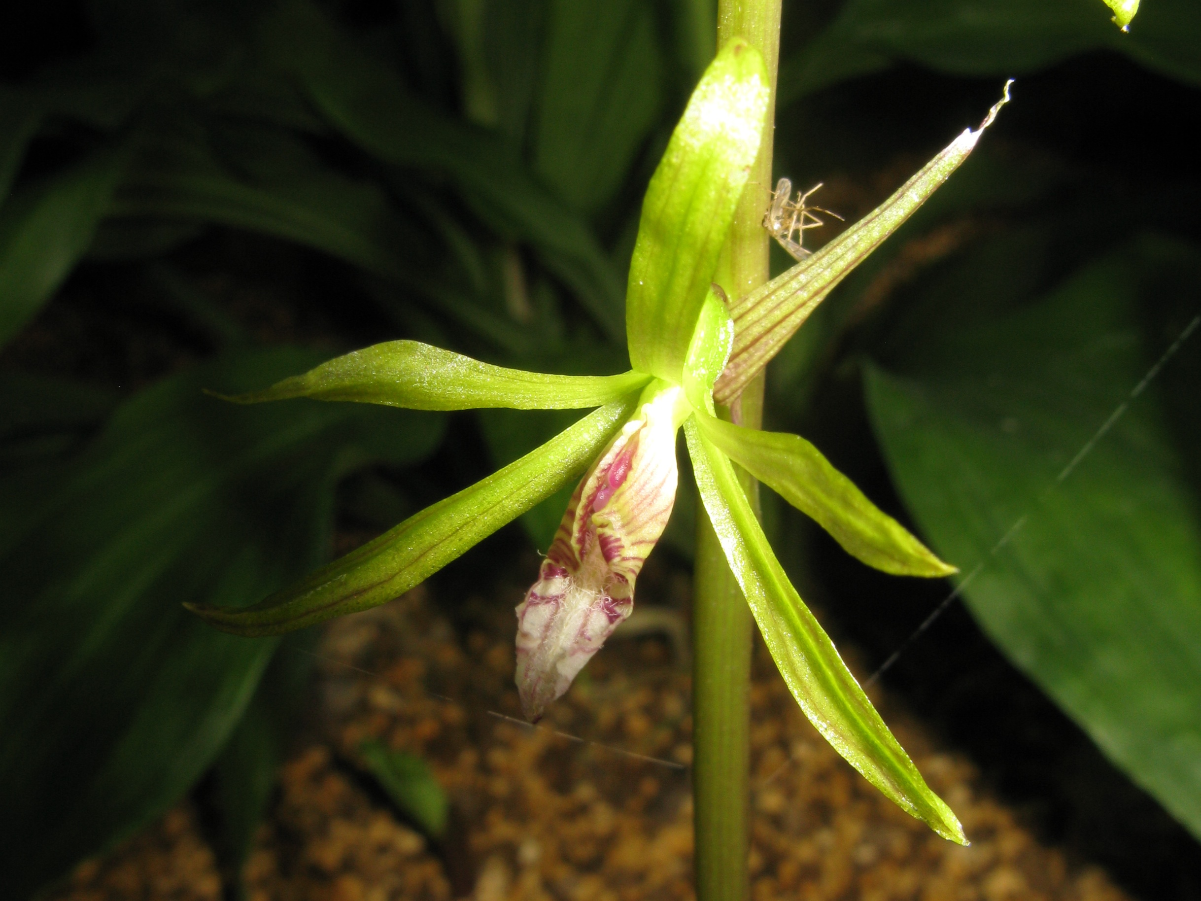 Nervilia aragoana, Tsukuba Botanical Garden, Ibaraki pref., Japan